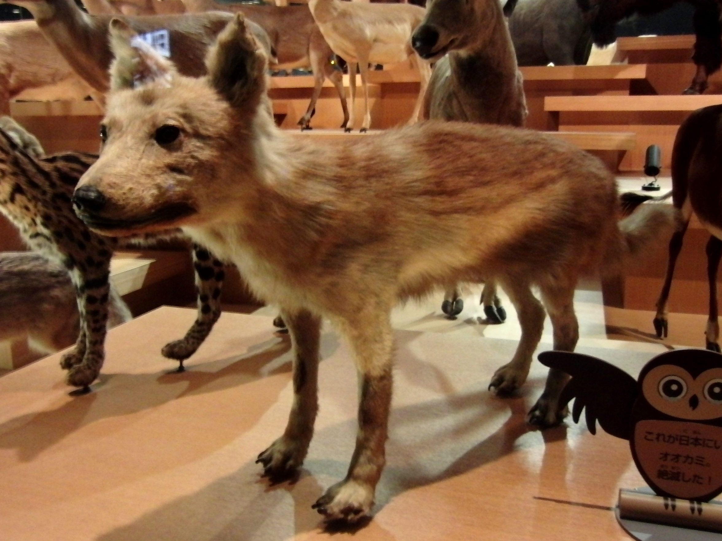 Stuffed Specimen of Honshu wolf (Japanese Wolf, Canis hodophilax). Exhibit in the National Museum of Nature and Science, Tokyo, Japan.